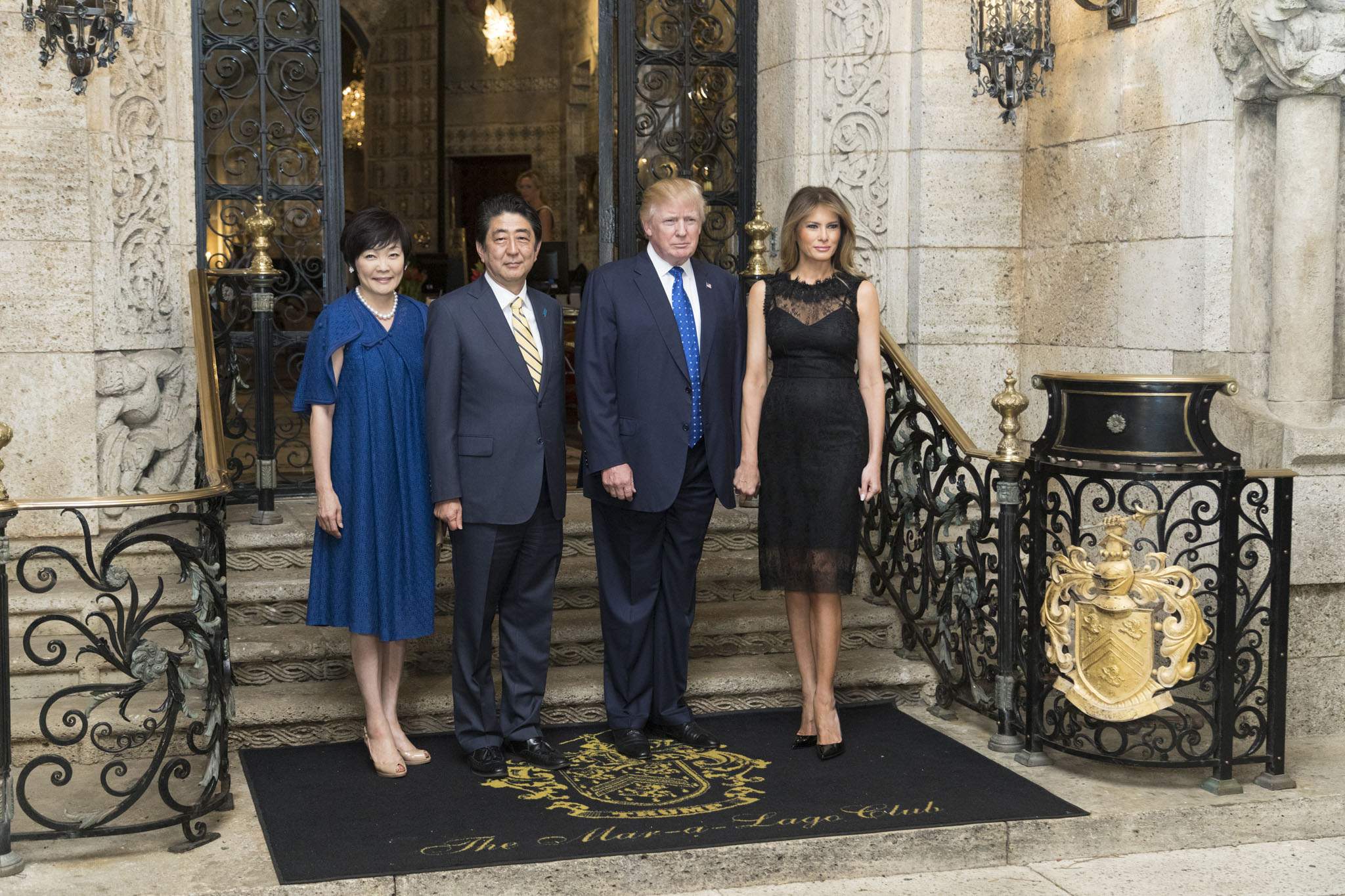 President Donald Trump and First Lady Melania Trump, are joined by Japanese Prime Minister Shinzō Abe, and his wife, Mrs. Akie Abe, as they pose for photos Saturday, Feb. 11, 2017, at Mar-a-Lago in Palm Beach, FL. (Official White House Photo by Shealah Craighead)